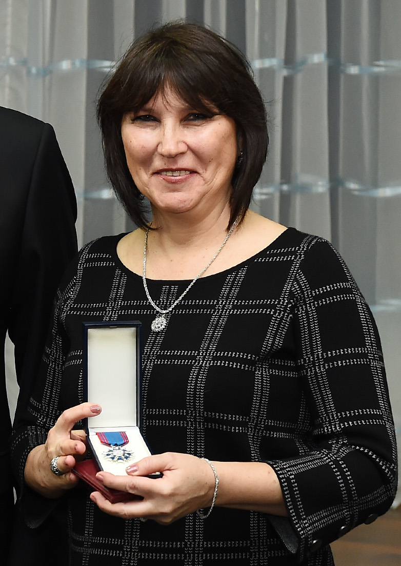 Zemfira Mephtakhetdinova. Ilham Aliyev attended ceremony dedicated to sport results of 2017